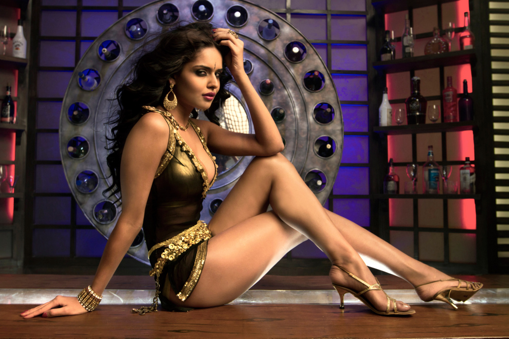 Nathalia Kaur in Department song 'Dan Dan'